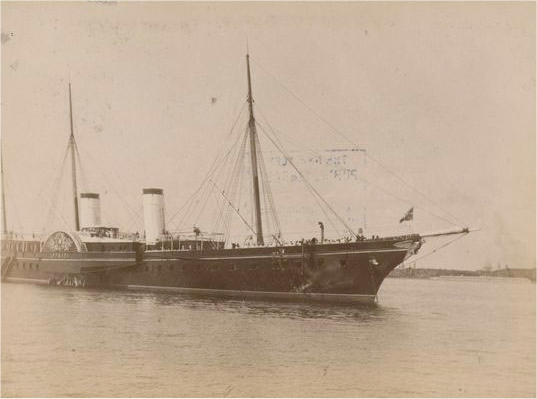 The Imperial Yacht Derzhava